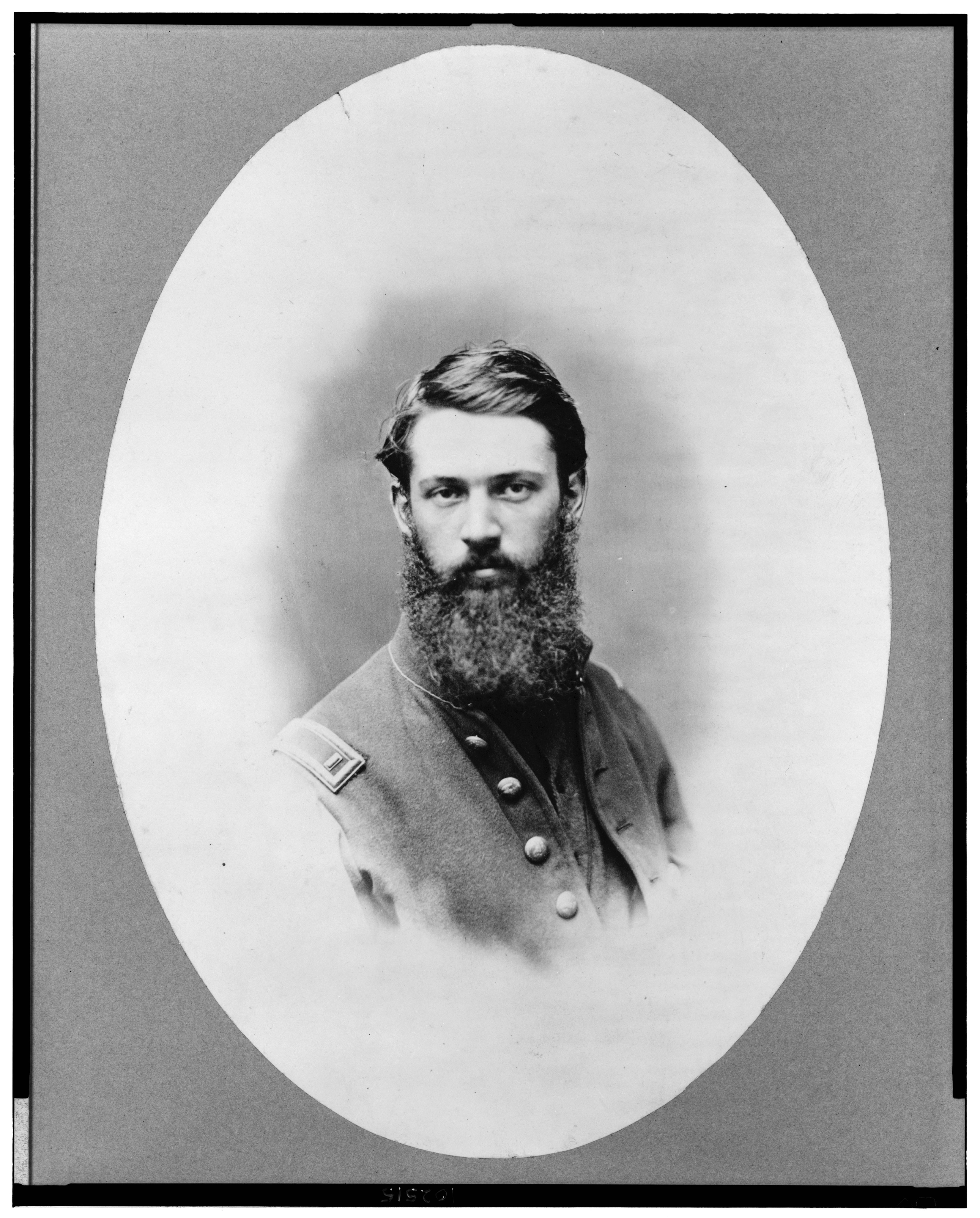 Title: J.M. Schoonmaker, half-length portrait, facing front, in Union uniform Abstract/medium: 1 photographic print.